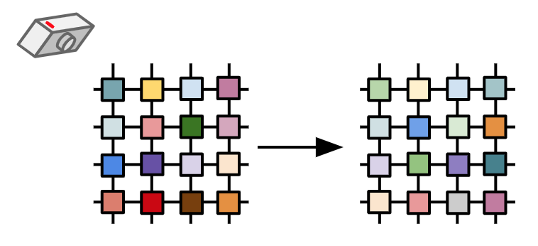 Diagram showing change in colorimetric gas sensors when exposed to a breath sample.